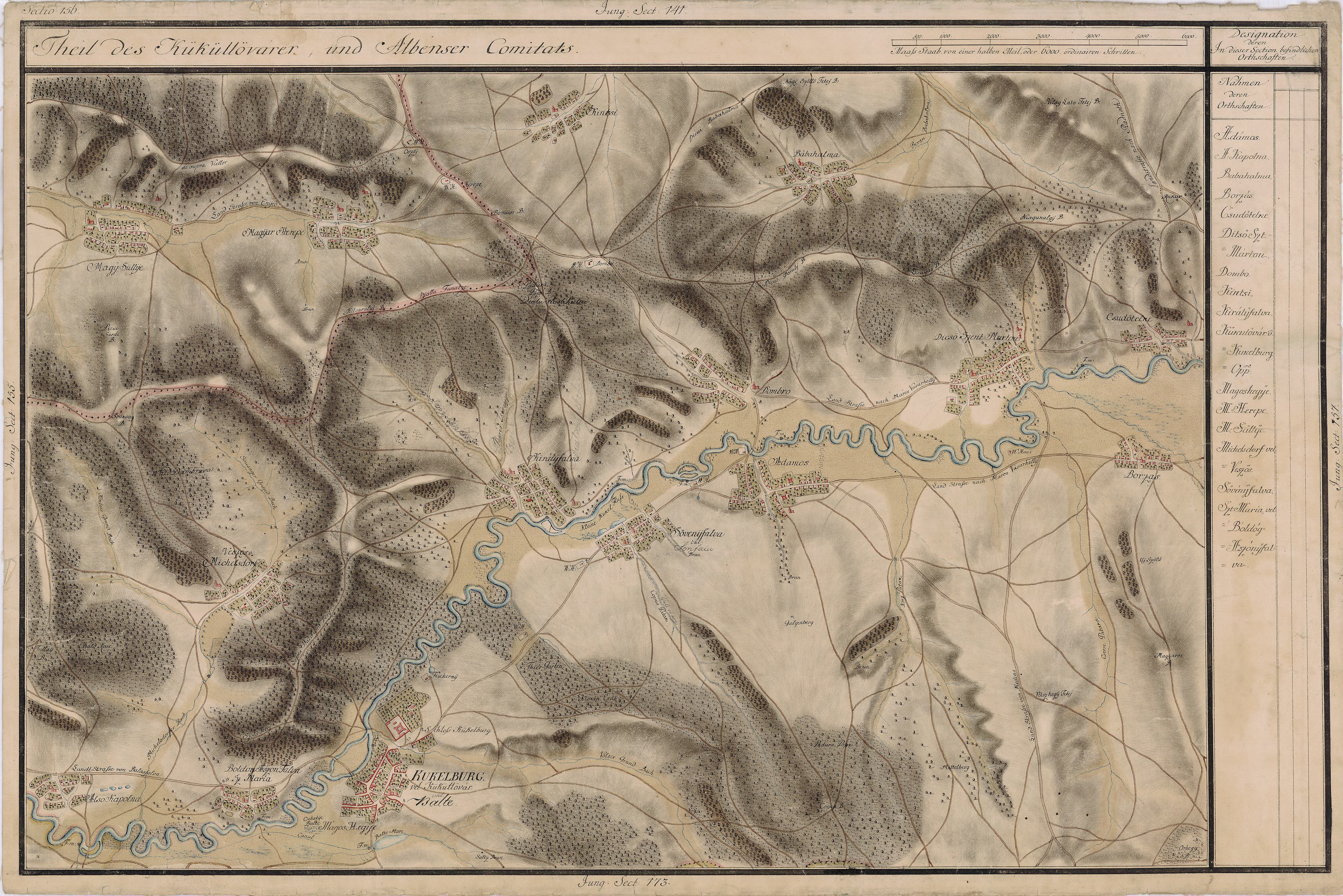 Grand Duchy of Transylvania, 1769-1773. Josephinische Landaufnahme pg.156